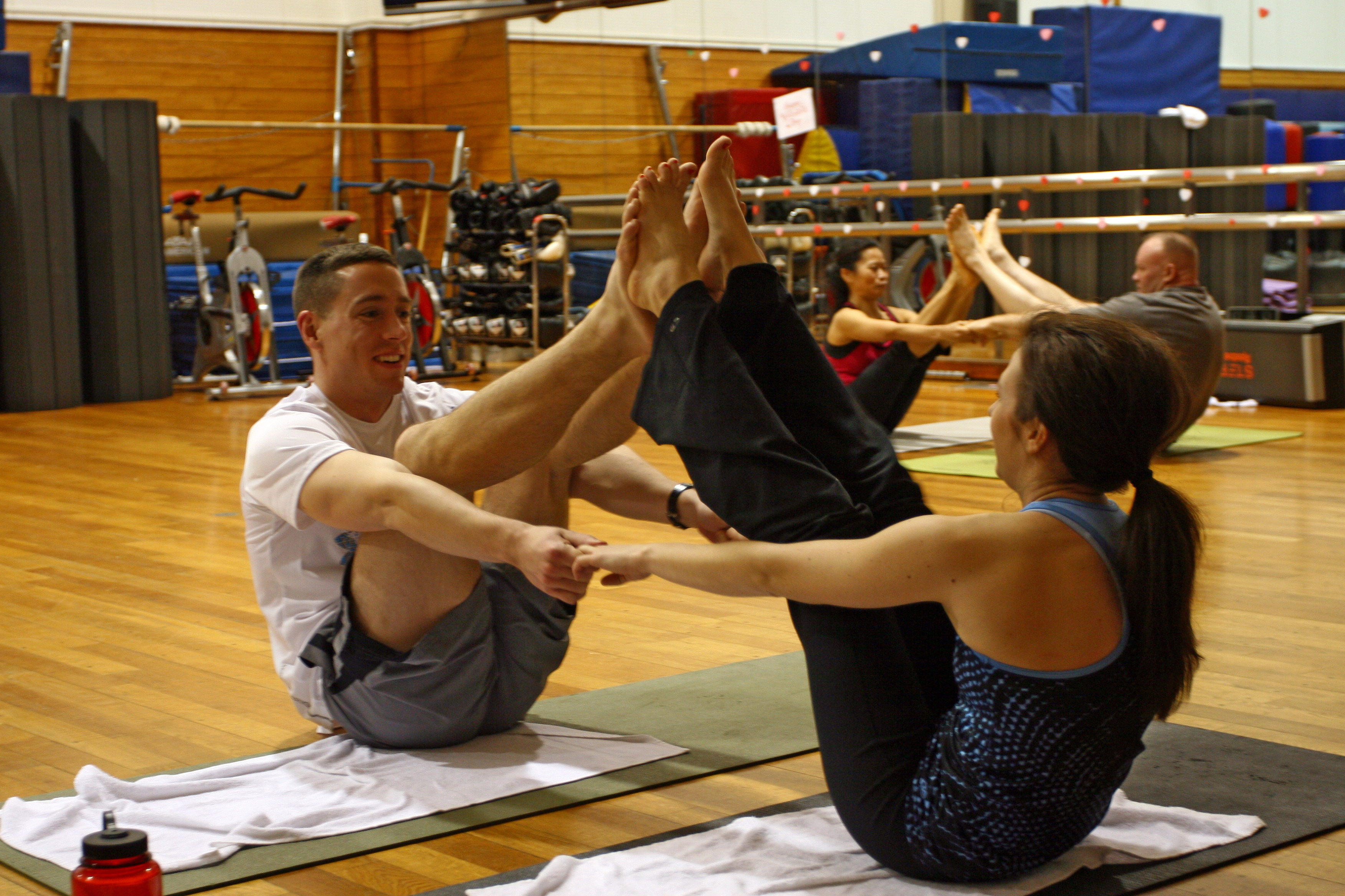 1st Lt. Mark J. Enoch, Headquarters and Headquarters Squadron financial management officer, and his wife, Ariel Enoch, perform yoga positions together by using each other’s bodies to help press their legs skyward and stretch their leg muscles while keeping their core muscles tight at the IronWorks Gym here Feb. 14. Performing Yoga with a partner has its benefits and allows two people the opportunity to come closer and learn more about their own body as well as their partner’s.